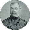 Photograph